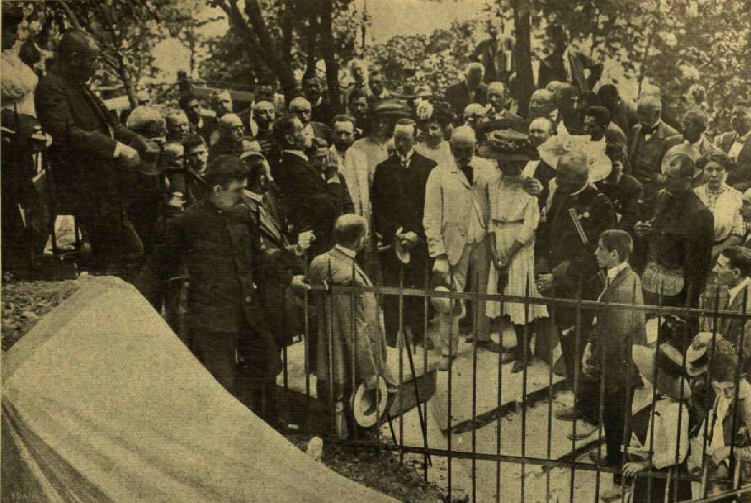 Commemorative plaque inauguration at Bátori Cave in 1911